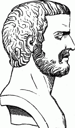 Diocletian